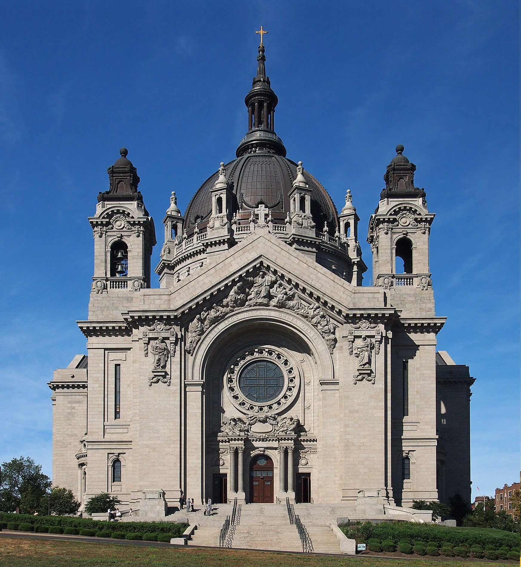 Cathedral of Saint Paul, 239 Selby Ave, Saint Paul, Minnesota, USA. Viewed from the east.